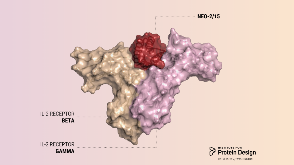 neo-2/15